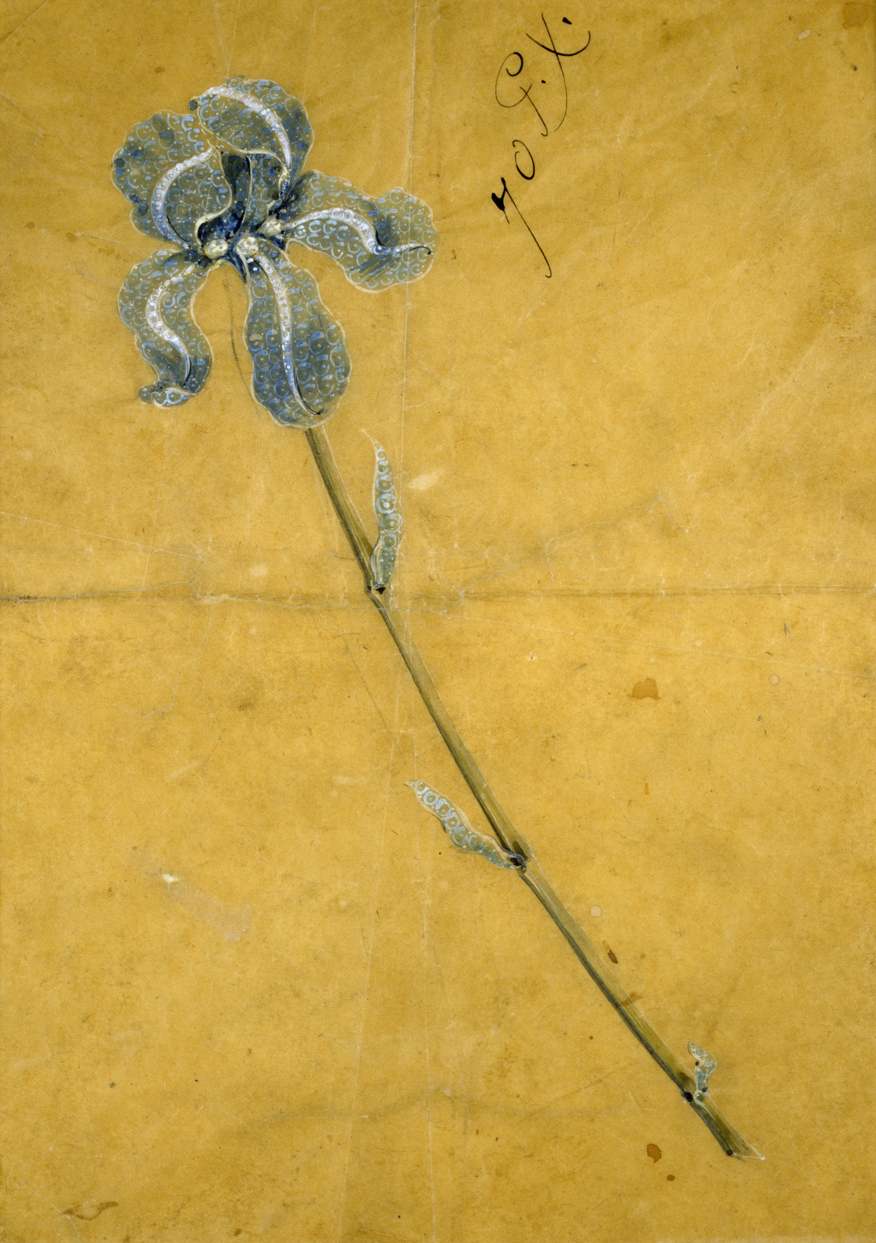 Farnham served as the chief designer and director of the jewelry division of Tiffany & Co. from 1893 until 1907 when he was replaced by Louis Comfort Tiffany. He frequently drew his designs from flowers and plants. This sketch is a working drawing for one of Tiffany's most famous creations, the Iris Corsage Ornament that won the firm a gold medal at the Paris Exposition Universelle in 1900. Farnham collaborated with Tiffany's gemologist George Frederick Kunz (1856-1912) in using American stones, in this instance Montana sapphires, for his exhibition pieces.